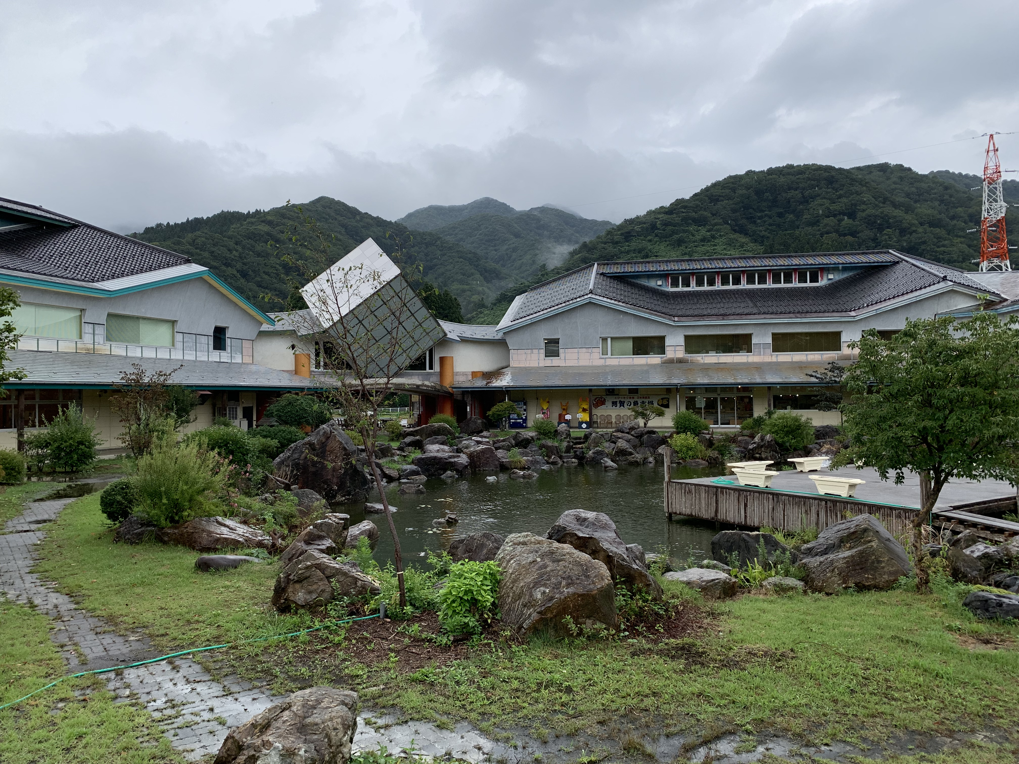 Aga-no-sato, Roadside Station, Niigata, Japan. Took photo in August 2019.